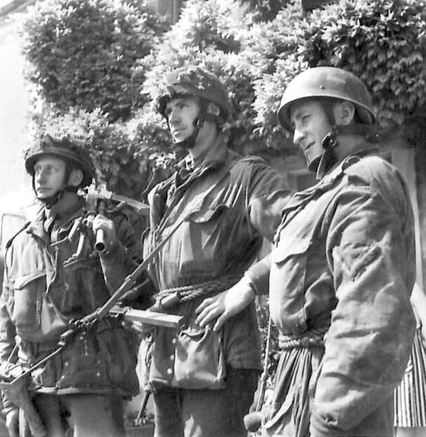 Men of D Company Oxfordshire and Buckinghamshire Light Infantry after capturing "Pegasus Bridge" (the Caen Canal Bridge at Benouville), France.